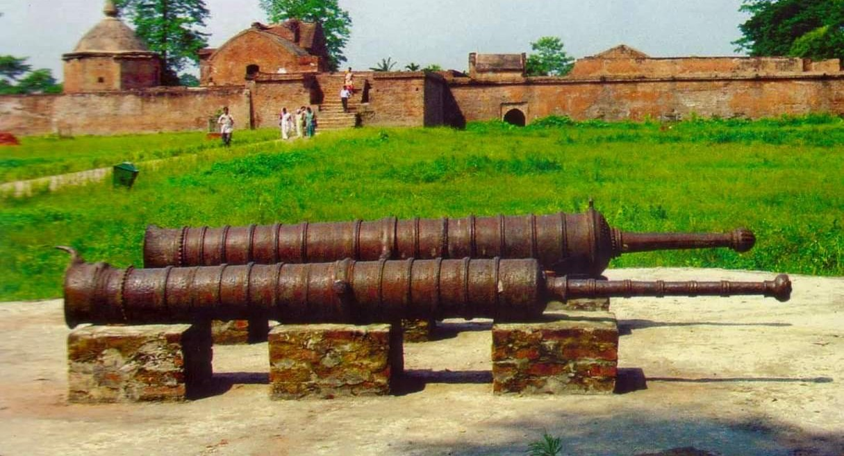 This is one of the Mithaholong guns which the Ahoms procured after defeating the Chutias.